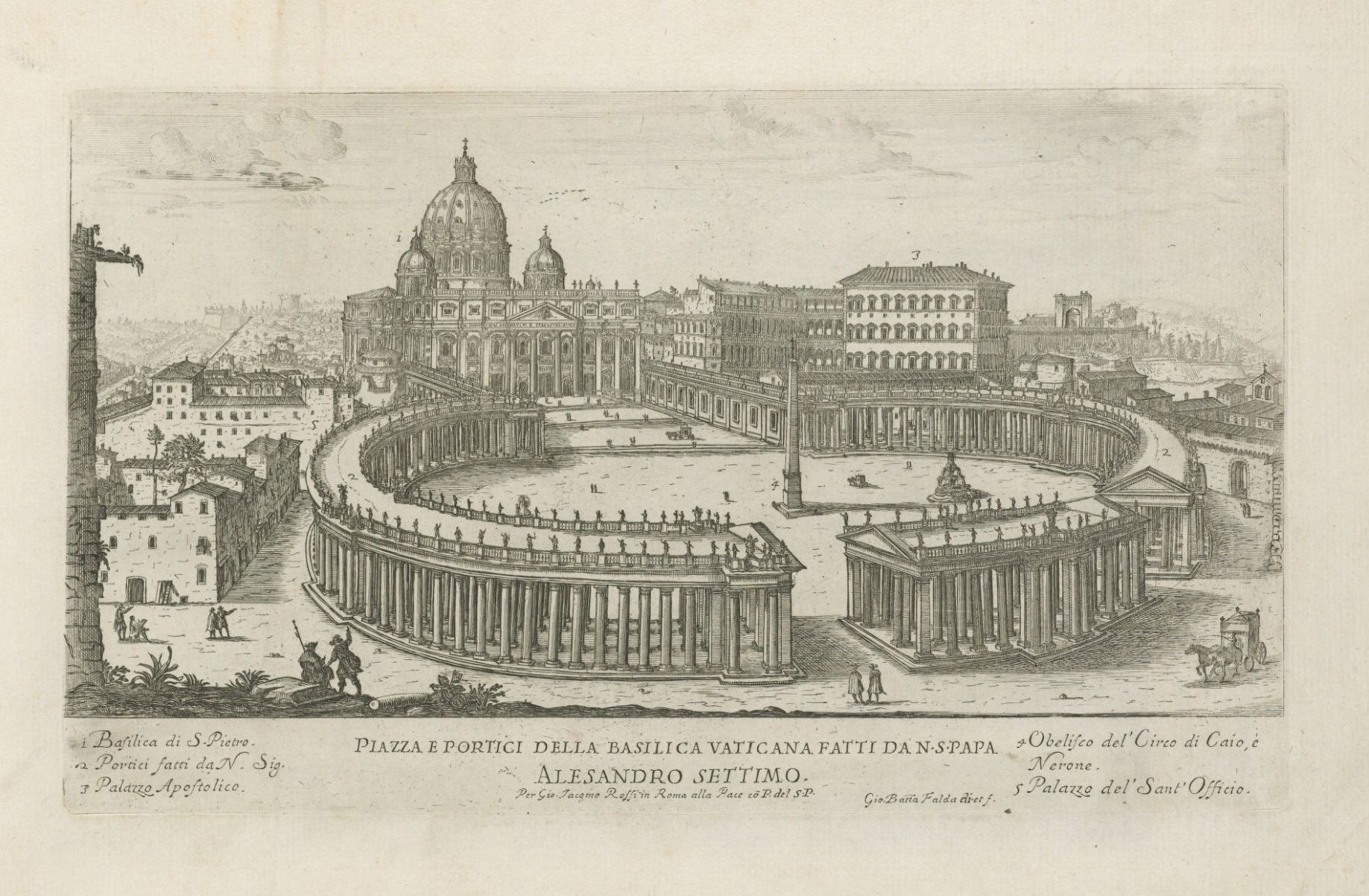 Illustration: "Basilica Vaticana", from Il nvovo teatro delle fabriche, et edificii, in prospettiva di Roma moderna, 1665, by Giovanni Battista Falda (approximately 1640-1678). Typ 625.65.382, Houghton Library, Harvard University